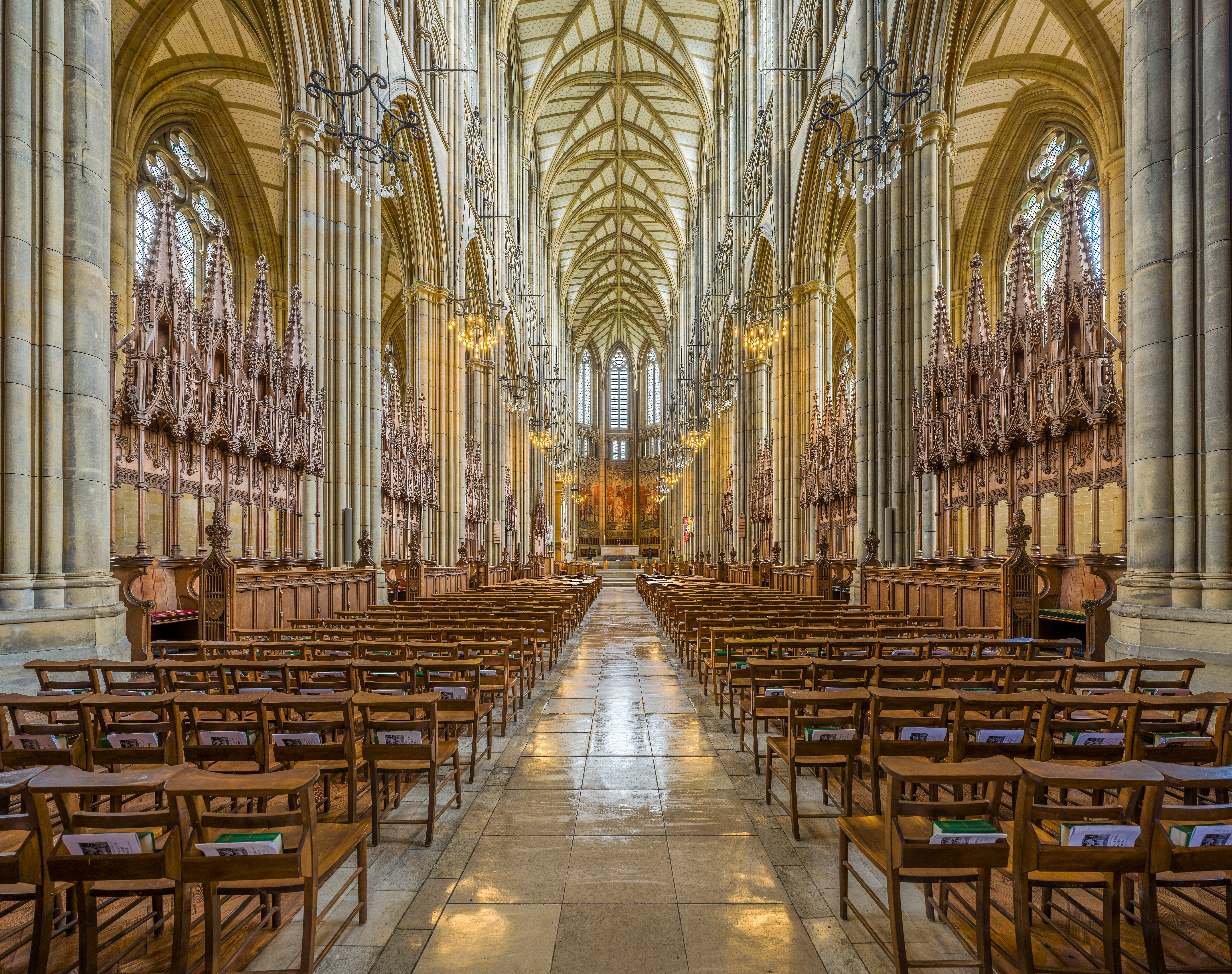 The nave of Lancing College Chapel facing east in West Sussex, England.